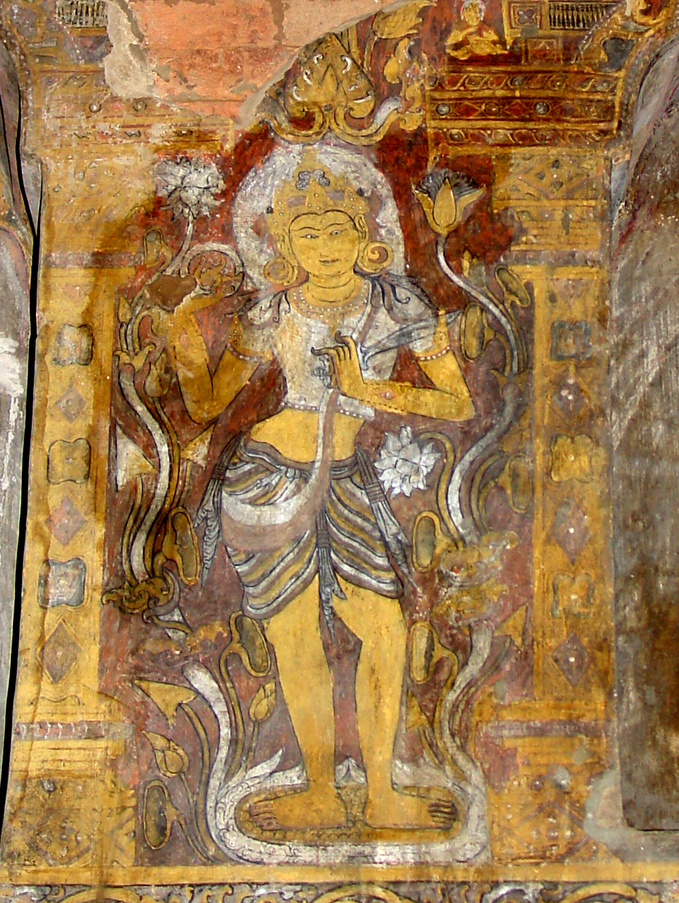 The inside of the temple is fully painted. This Bodhisattva stands high up on the wall, surrounded in typical iconography by long, curling lotus stems and flowers. It was not possible to photograph elsewhere in the temple at the time of our visit (2004).